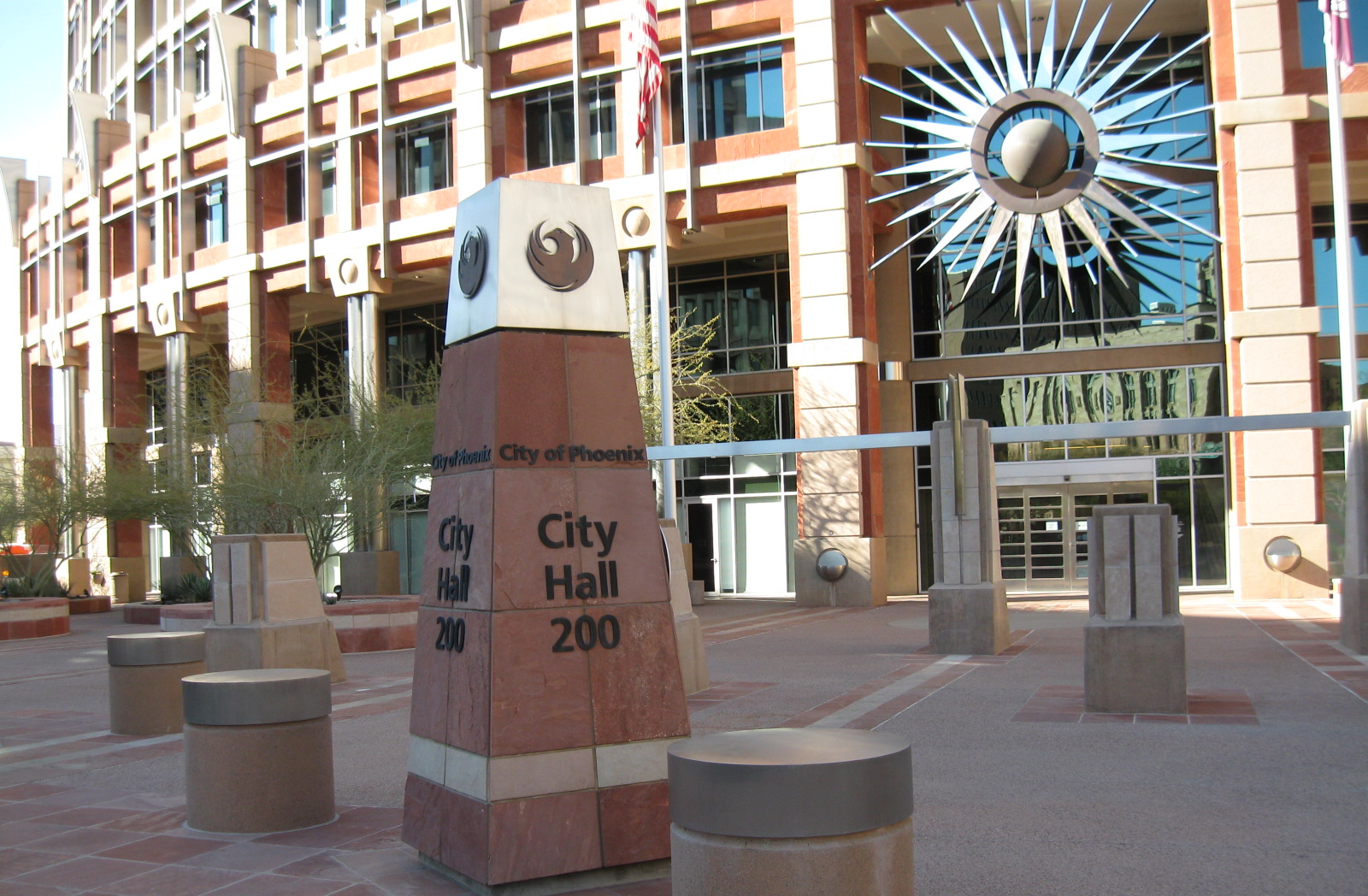 The City Hall of Phoenix, Arizona showing the city's logo The Phoenix Bird. The Phoenix Bird is copyrighted by the City of Phoenix which prohibits all reproduction of said logo -- Map